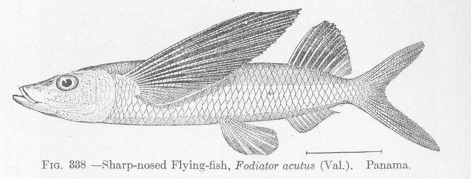 Sharp-nosed Flying-fish, Fodiator acutus (Va.). Panama Subject: Belinoformes Tag: Fish